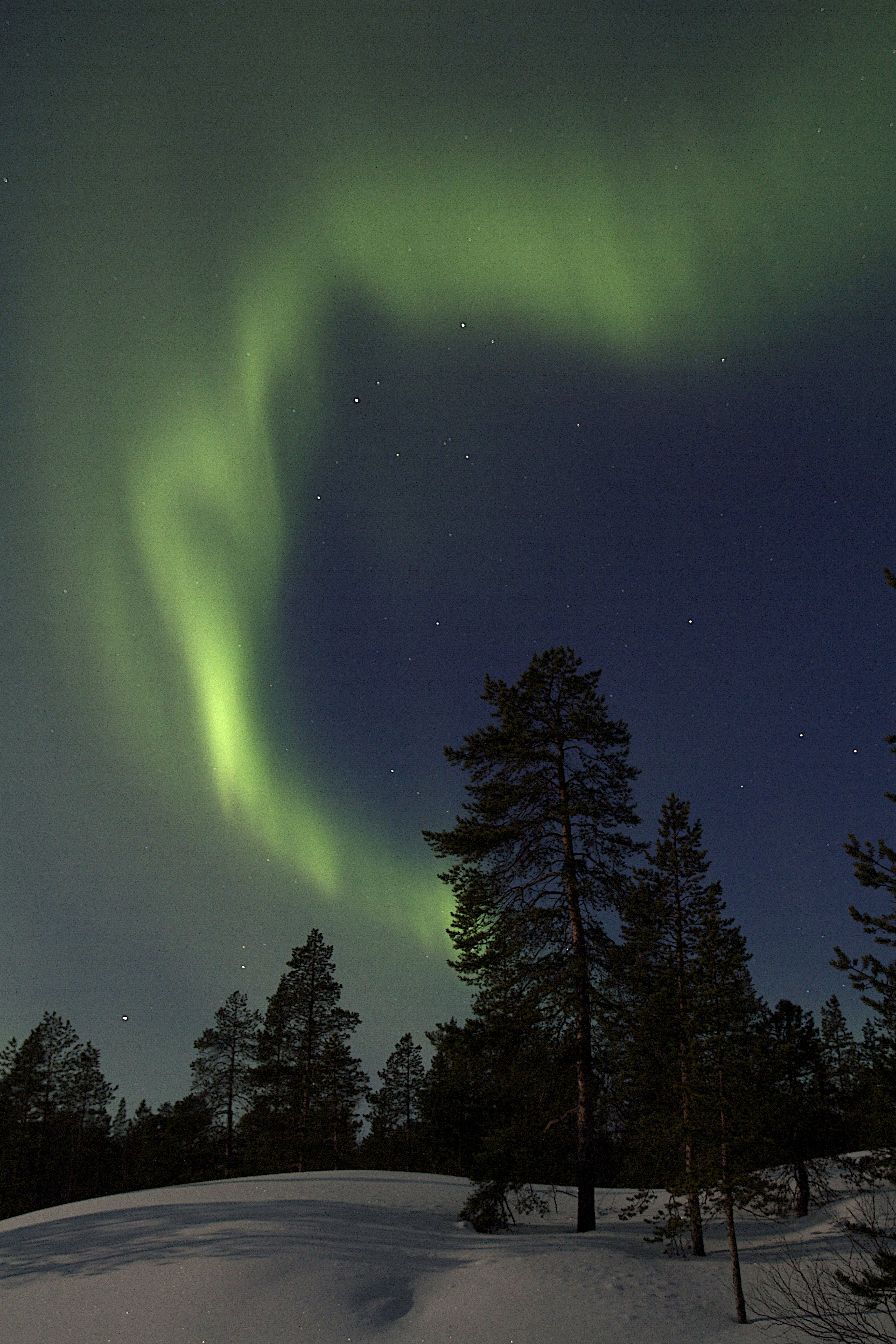 Beautiful aurora borealis on the Norwegian-Russian border